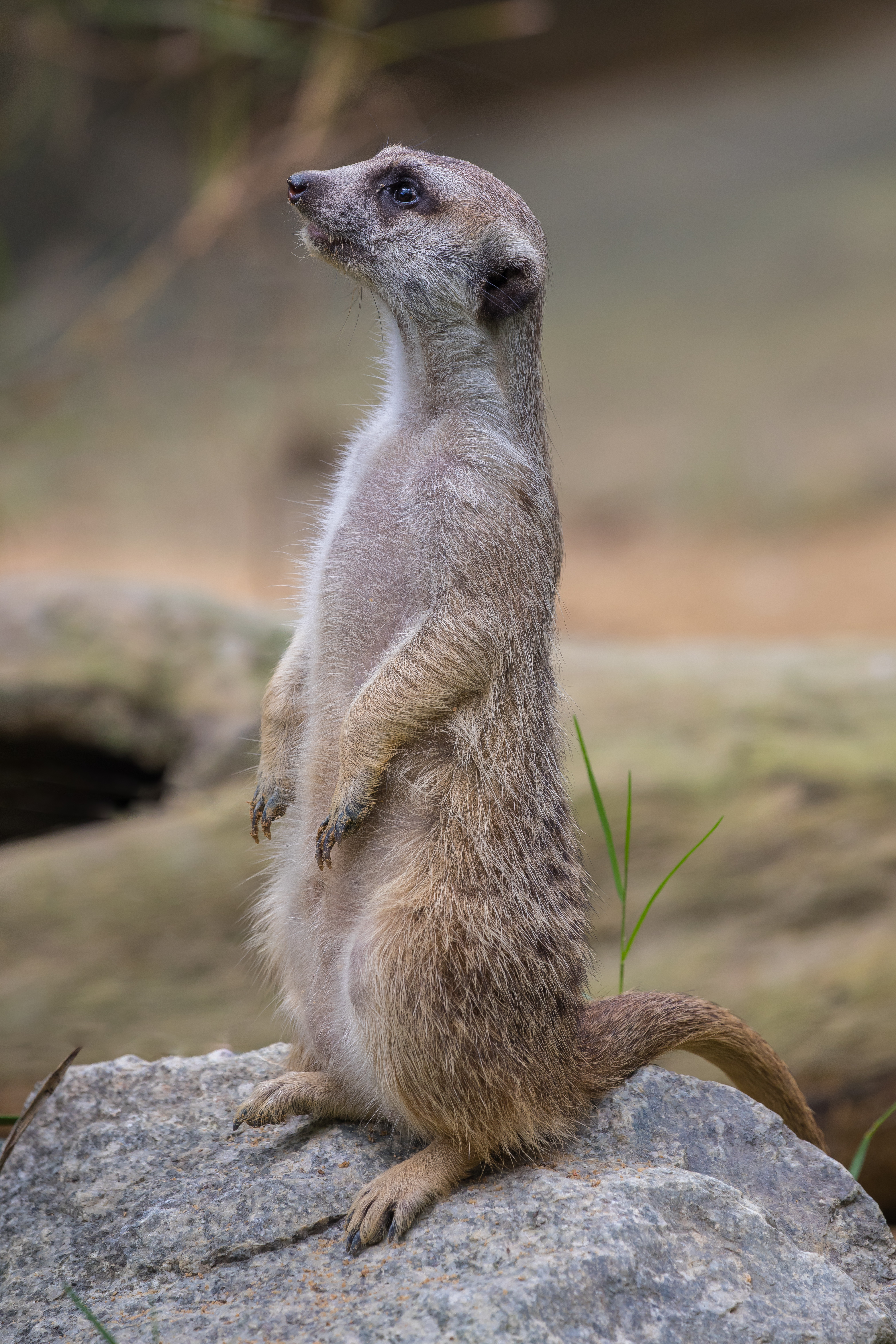 Standing Suricata suricatta (meerkat) looking in front, in the Singapore zoo